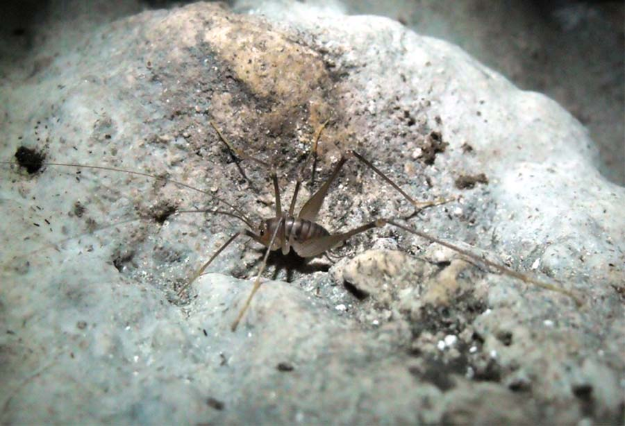 Dolichopoda geniculata photographed in Grotta dei Bambocci cave, near Collepardo, Alatri, Frosinone province, Latium, central Italy. Photo by Marcelli Massimiliano.